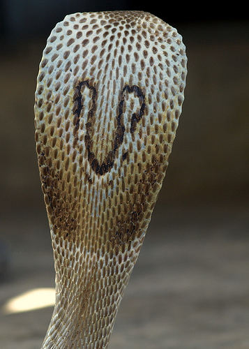 Indian Spectacled Cobra - so called due to its spectacled shape at the back of the hood and belonging to the Indian venomous snakes group. it is treated as a God and worshipped with a festival called "NagaPanchami"